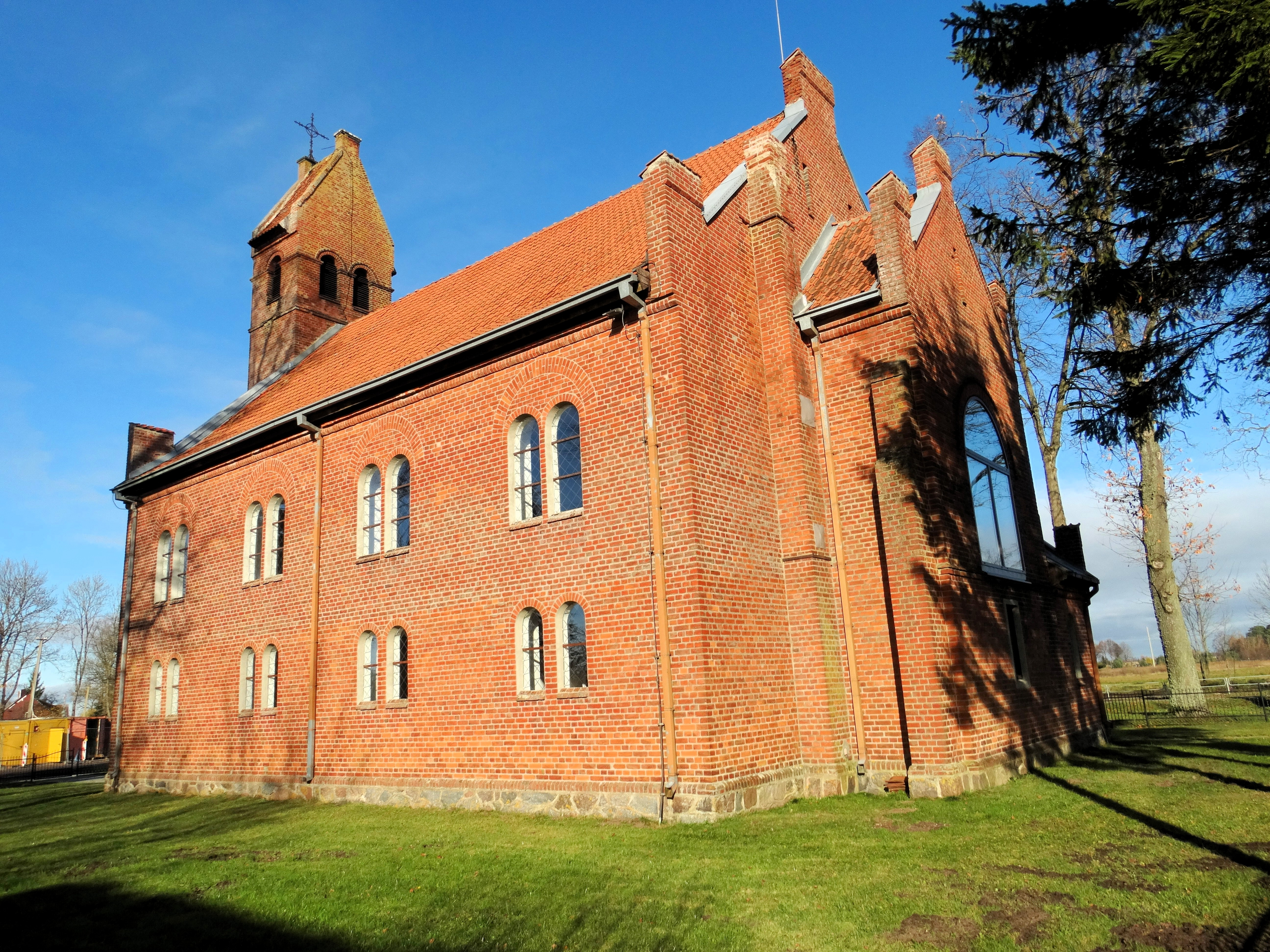 Evangelical Lutheran Church, Rukai, Pagėgiai Municipality, Lithuania